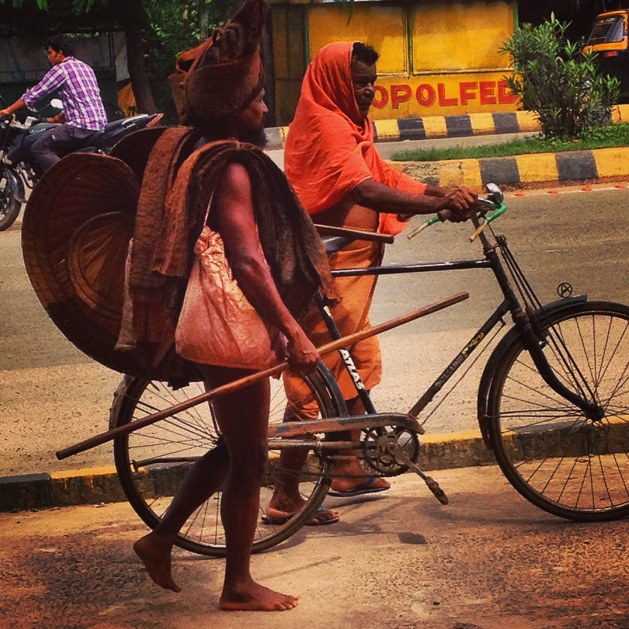 Mahima Alekha (Oriya: ମହିମା ଅଲେଖ) monk walking on a Bhubaneswar road. Mahima is world's smallest religion that originated in Odisha, India to protest against caste system and dominance of upper castes in Hinduism. ଓଡ଼ିଆ: ଓଡ଼ିଶାର ଭୁବନେଶ୍ୱର ରାସ୍ତାରେ ଚାଲିଚାଲି ଯାଉଥିବା ଜଣେ ମହିମା ଅଲେଖ ସାଧୁ । ମହିମା ଧର୍ମ ହିନ୍ଦୁ ସମାଜରେ ଜାତି ପ୍ରଥା ଓ ଉଚ୍ଚ ଜାତିର ଲୋକଙ୍କ ଆଧିପତ୍ୟ ବିରୋଧରେ ସ୍ୱର ଉତ୍ତୋଳନ କରି ଛିଡ଼ା ହୋଇଥିଲା । ଏହା ପୃଥିବୀର ସବୁଠାରୁ କମ ଧର୍ମାବଲମ୍ବୀ ଥିବା ଧର୍ମ ।